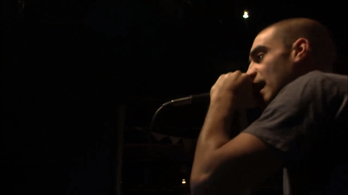 Lowkey performs "Hip-Hop Ain't Dead" in Bristol.